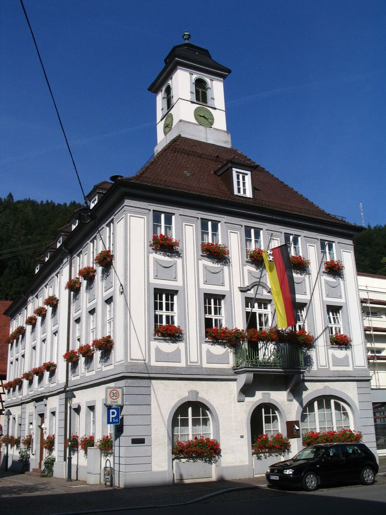 Town-hall of Neuenbürg, Germany